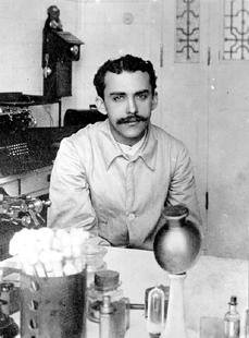 Gaspar Vianna (1885–1914) in a laboratory at Instituto Oswaldo Cruz. Rio de Janeiro, [19--].